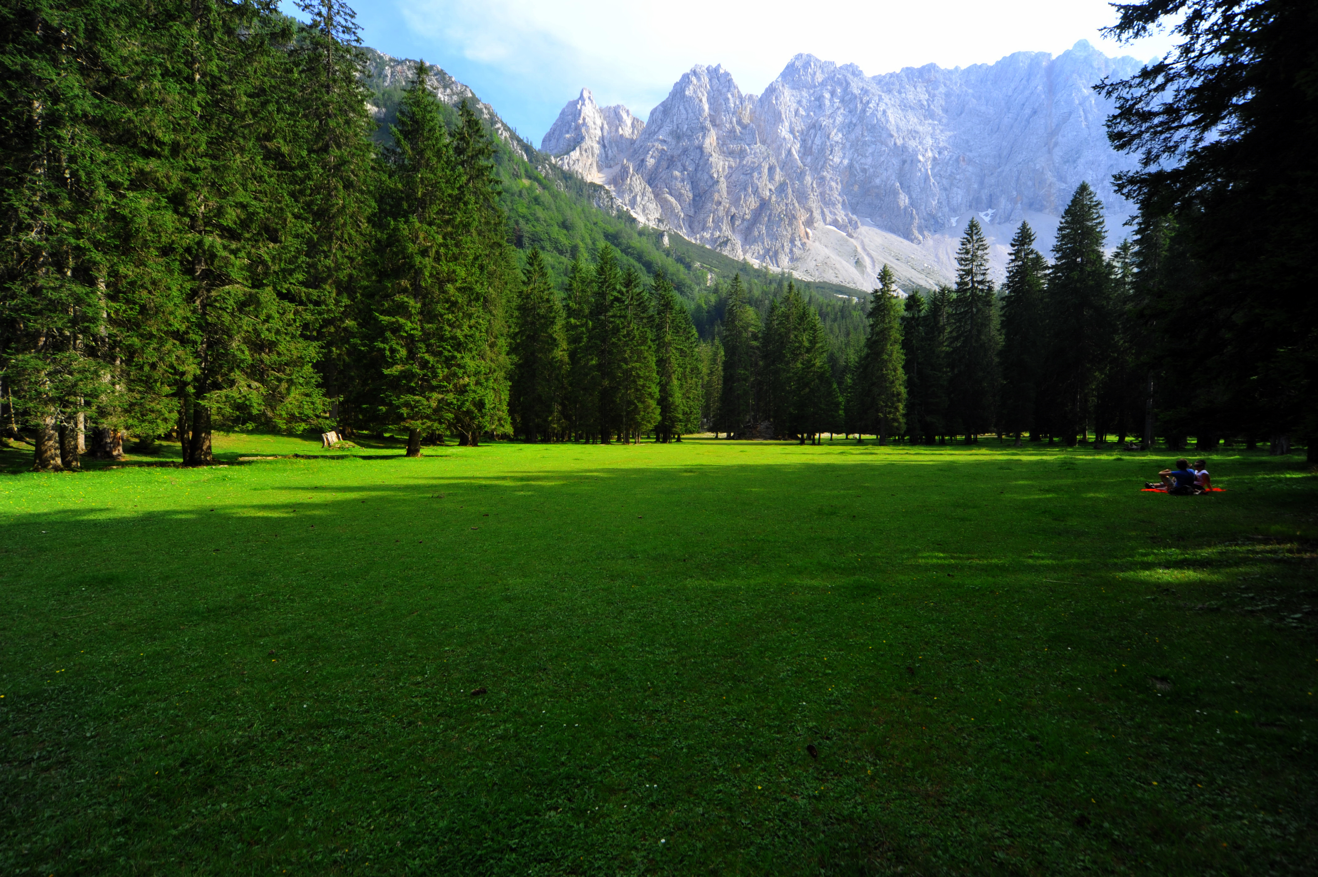 Märchenwiese (fairy tale meadow) in the Bodental valley near Ferlach / Carinthia / Austria / EU.